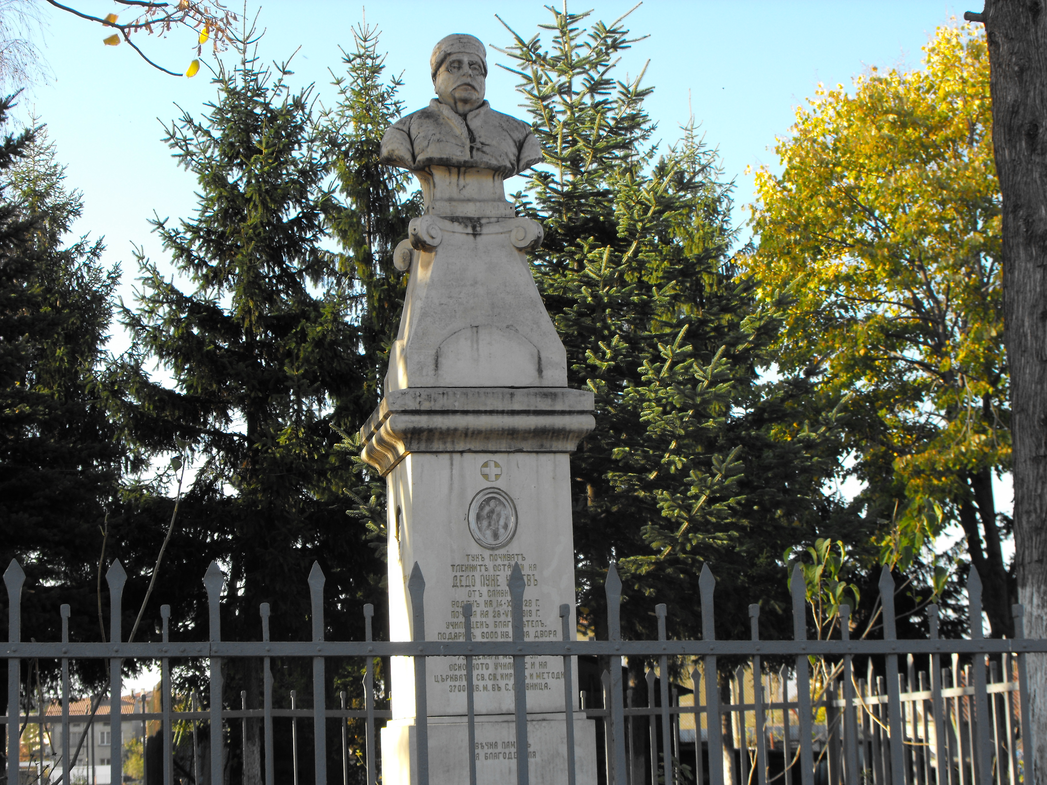 Pune Kolev